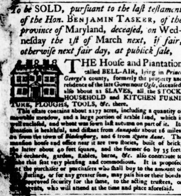 Newspaper Notice advertising the sale of the property of Benjamin Tasker